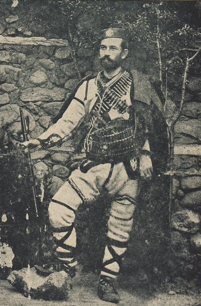 Portrait of IMARO voevoda Dime or Dimche Stoyanov Berbercheto